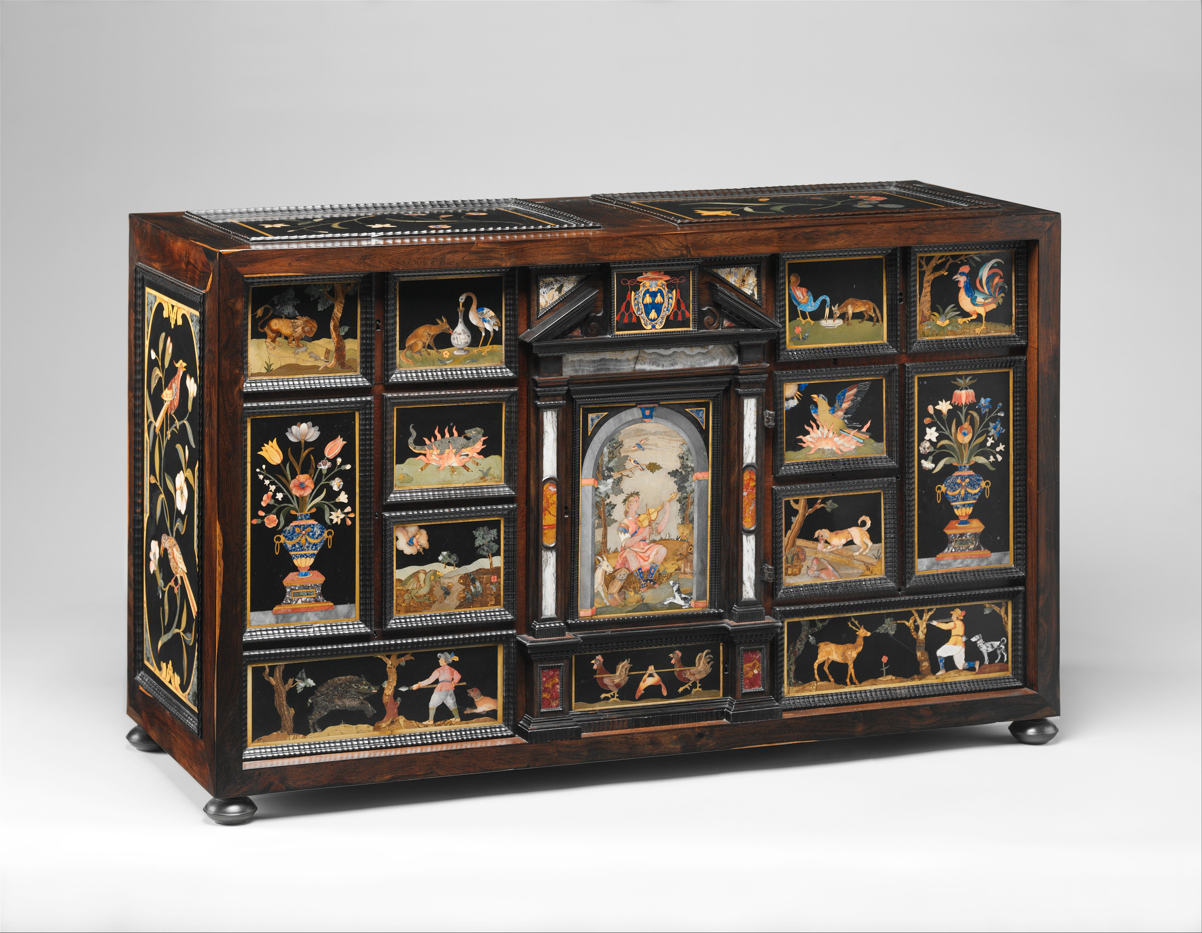 Italian, Florence; Cabinet; Woodwork-Furniture